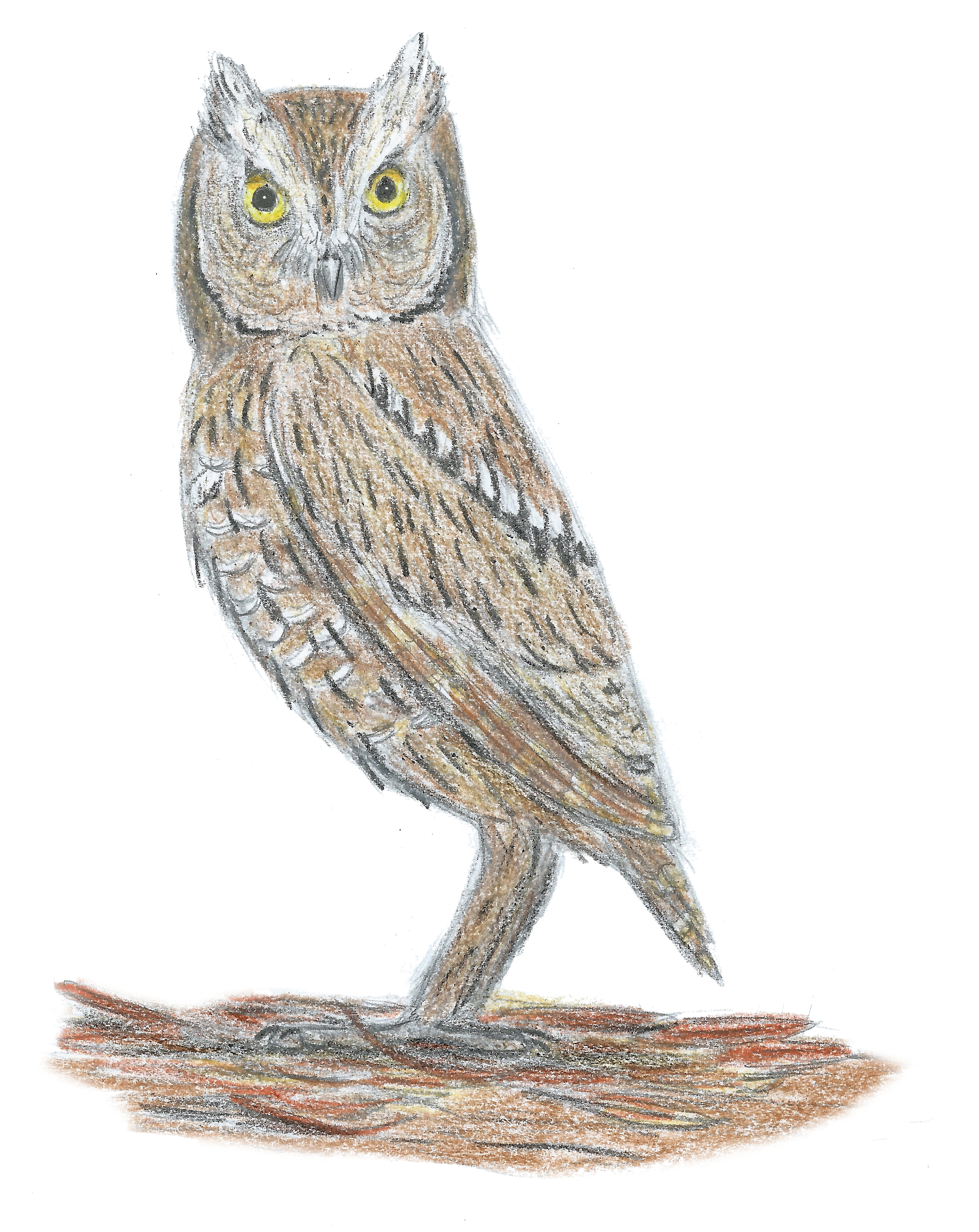 Life restoration of the madeiran scops owl (Otus maul), a relative of the eurasian scops owl that lived in Madeira until de 15th century. This is an hypothetical restoration, mainly based on the eurasian scops owl